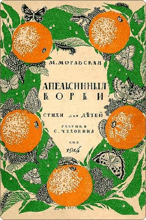 "Apel'sinovye korki" (Orange peel) children's verses book by Moravskaya (1914)